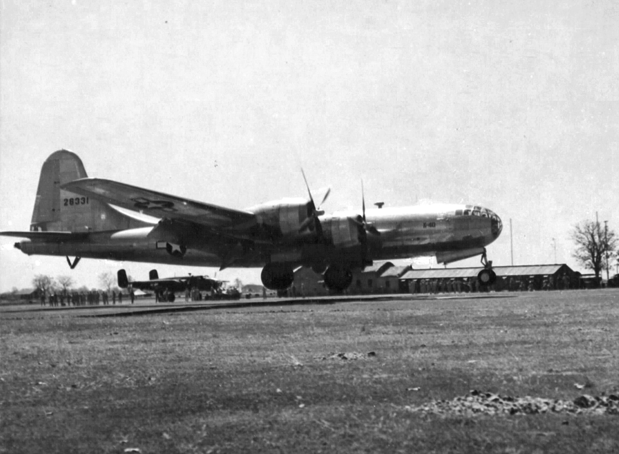 "Gone With The Wind" B-29-10-BW Superfortress s/n 42-6331 25th Bomb Squadron, 40th Bomb Group, 20th Air Force. This aircraft was assigned to the China-Burma-India Theatre of Operations. The first B-29 aircraft which left the US to reach the CBI was "Stockett's Rocket", named after Captain Marvin M. Stockett, which was lost over the Himalalyas June 15, 1944. It was also in the 25th Bomb Squadron. Photo taken in July 1944 at Chakulia AB, India showing aircraft taking off to attack Japanese targets during the Battle of Imphal. The aircraft was lost in combat, December 1, 1944.